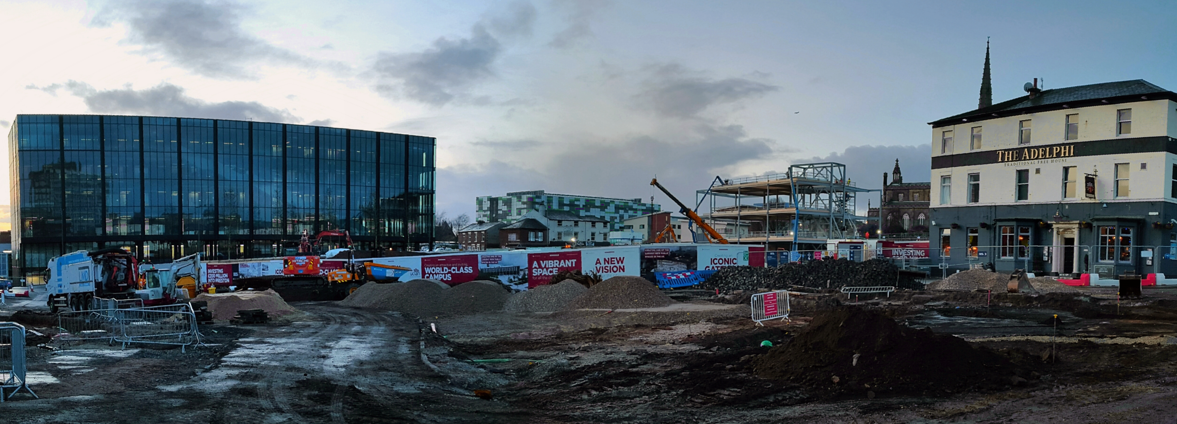 Construction of UCLan's Gateway Building and public square, on the former site of the Aldephi roundabout. On the left can be seen the Engineering Innovation Centre, opened in 2018.